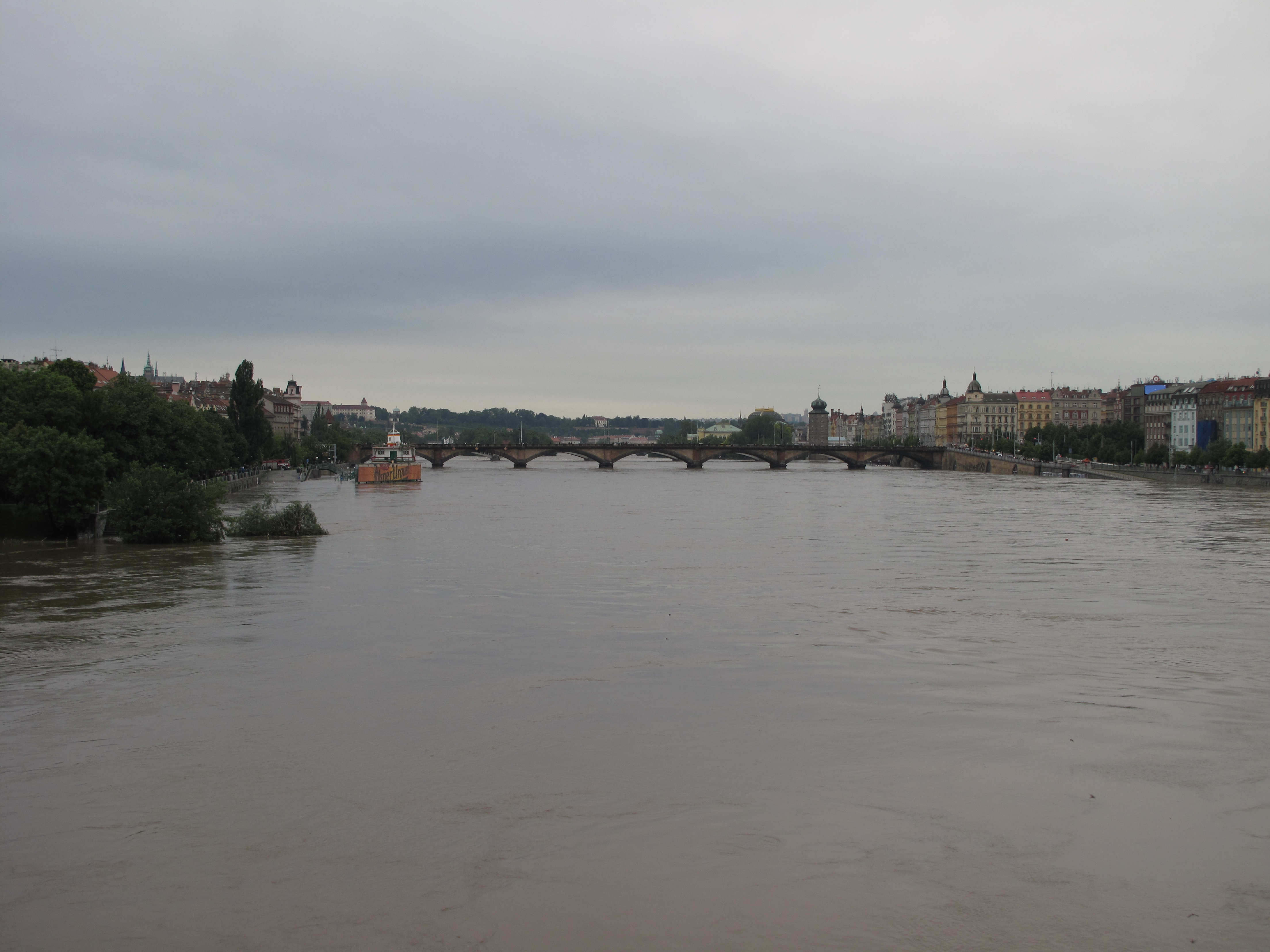 2013 floods in Prague, Czech Republic.